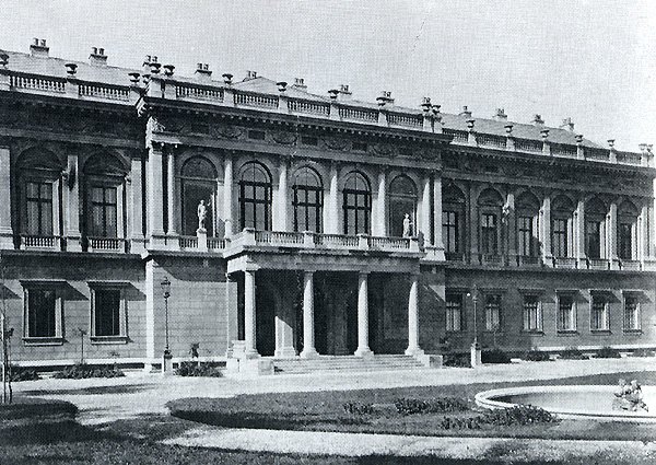 Palais Toscana, Wien, Austria